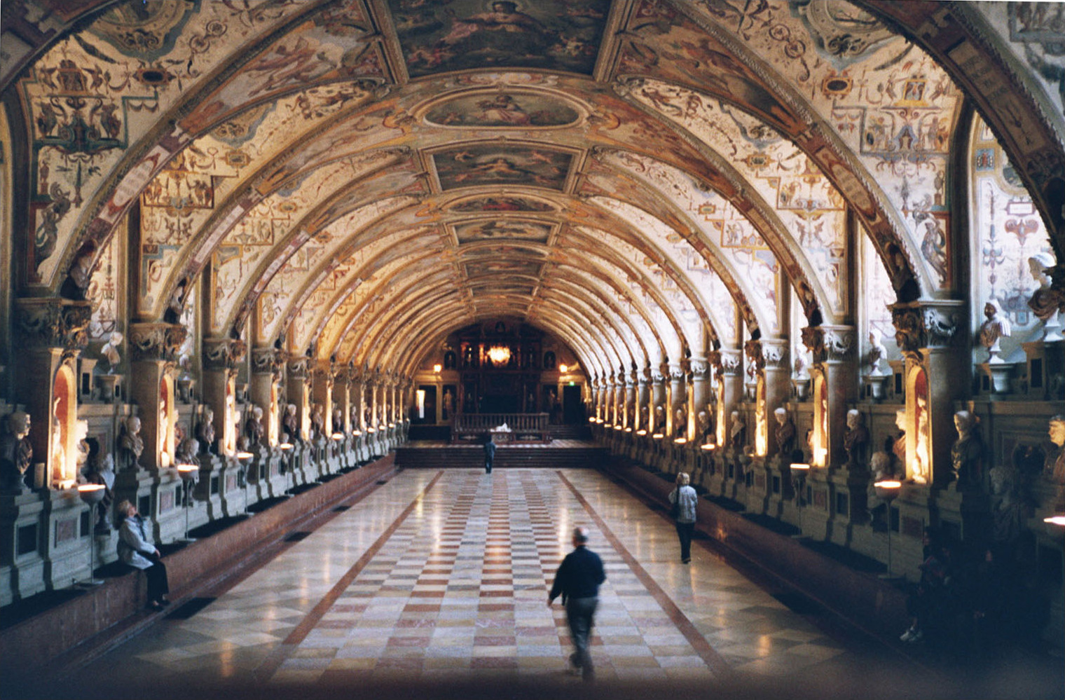 View on Antiquarium, Residenz, Munich, Bavaria